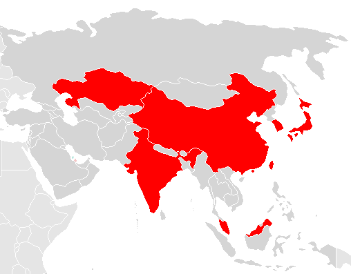 Participants of 2013 Asian women's hockey cup